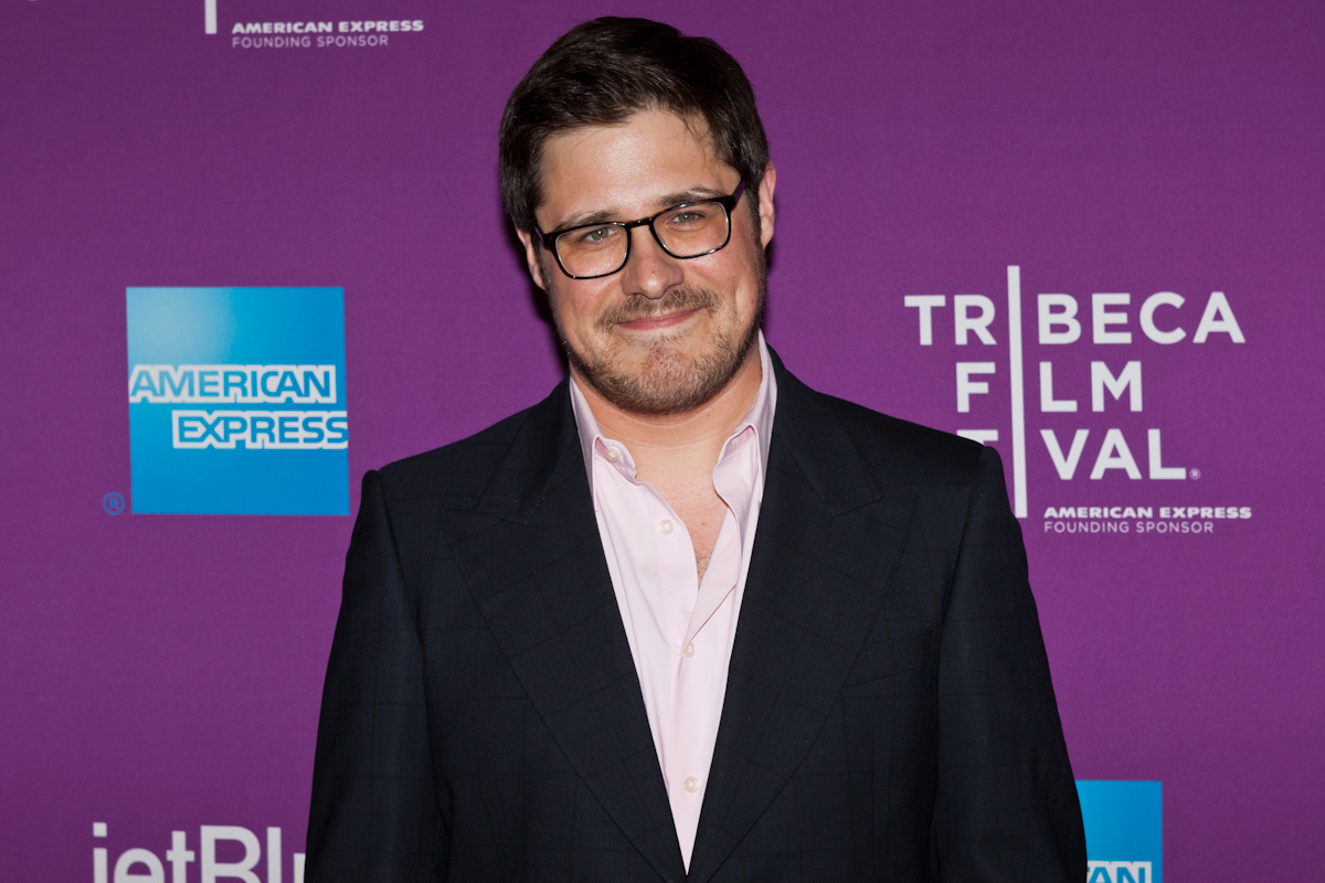 Rich Sommer at Giant Mechanical Man Premiere Tribeca Film Festival 2012